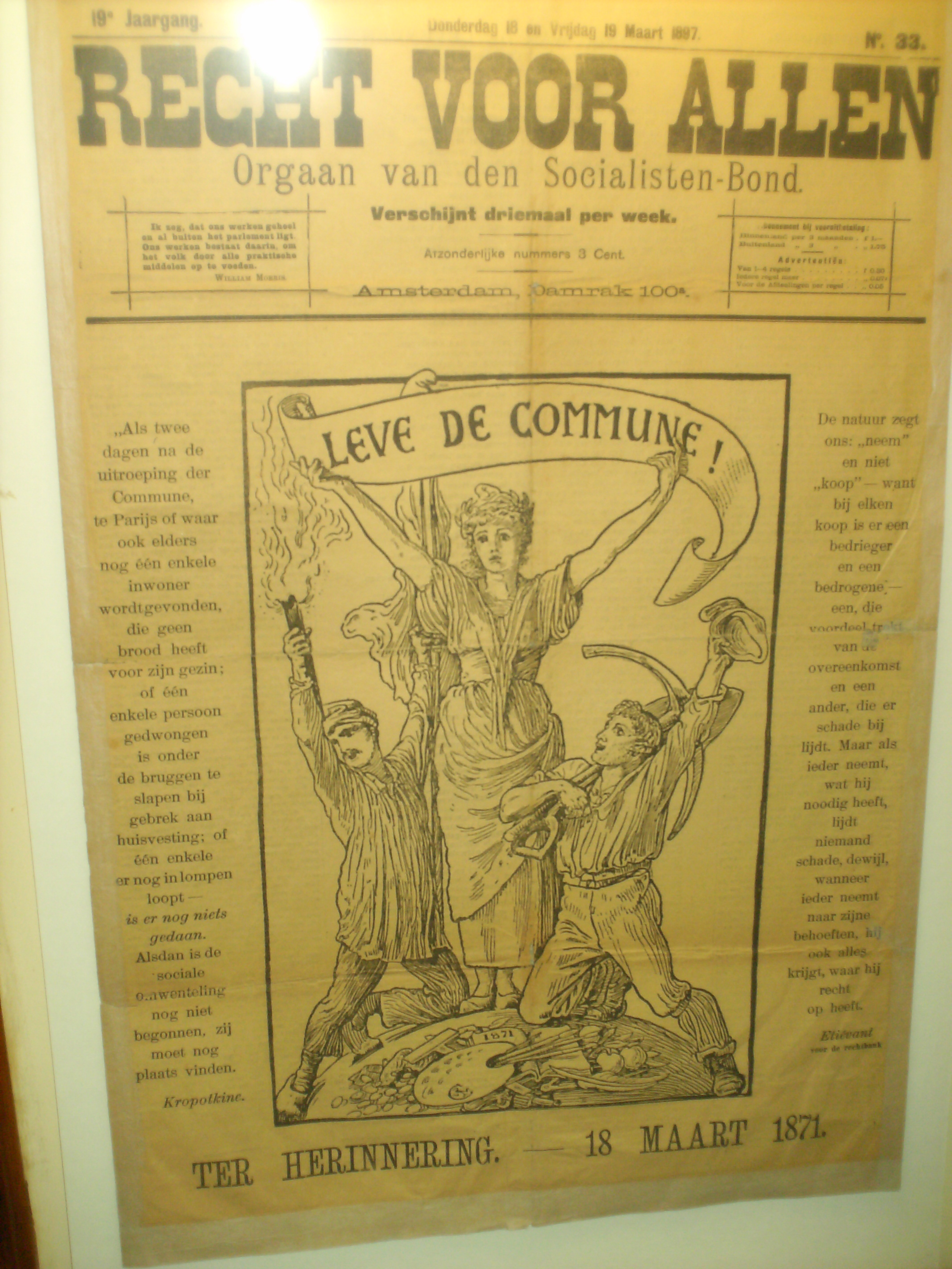 Picture of de socialist newspaper 'Recht voor Allen' as exposed in the Ferdinand Domela Nieuwenhuis museum in Heerenveen, The Netherlands